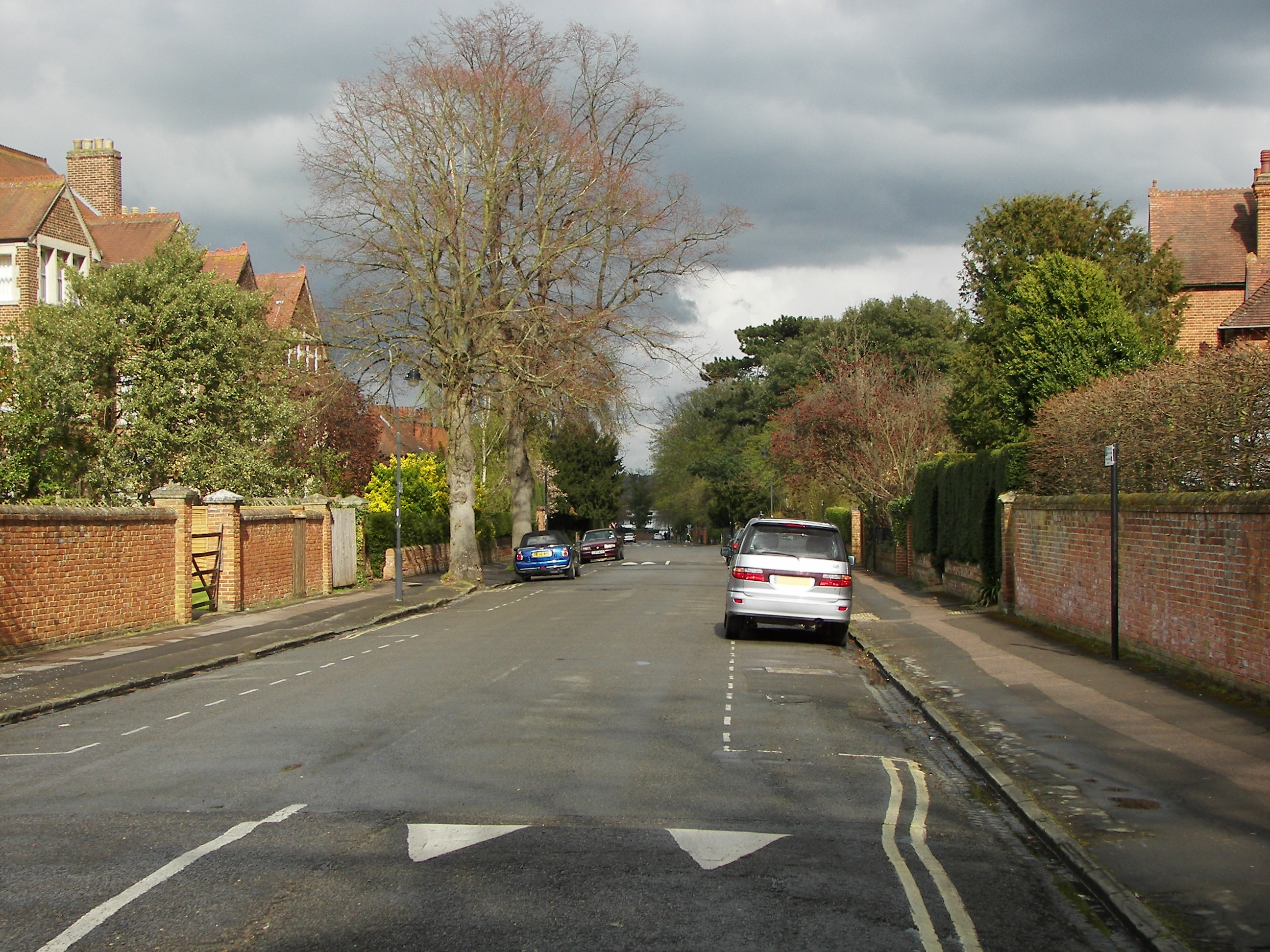 View east from Banbury Road along Linton Road, North Oxford, England. I have edited the photo to obscure the licence plate number of the silver car on the right.